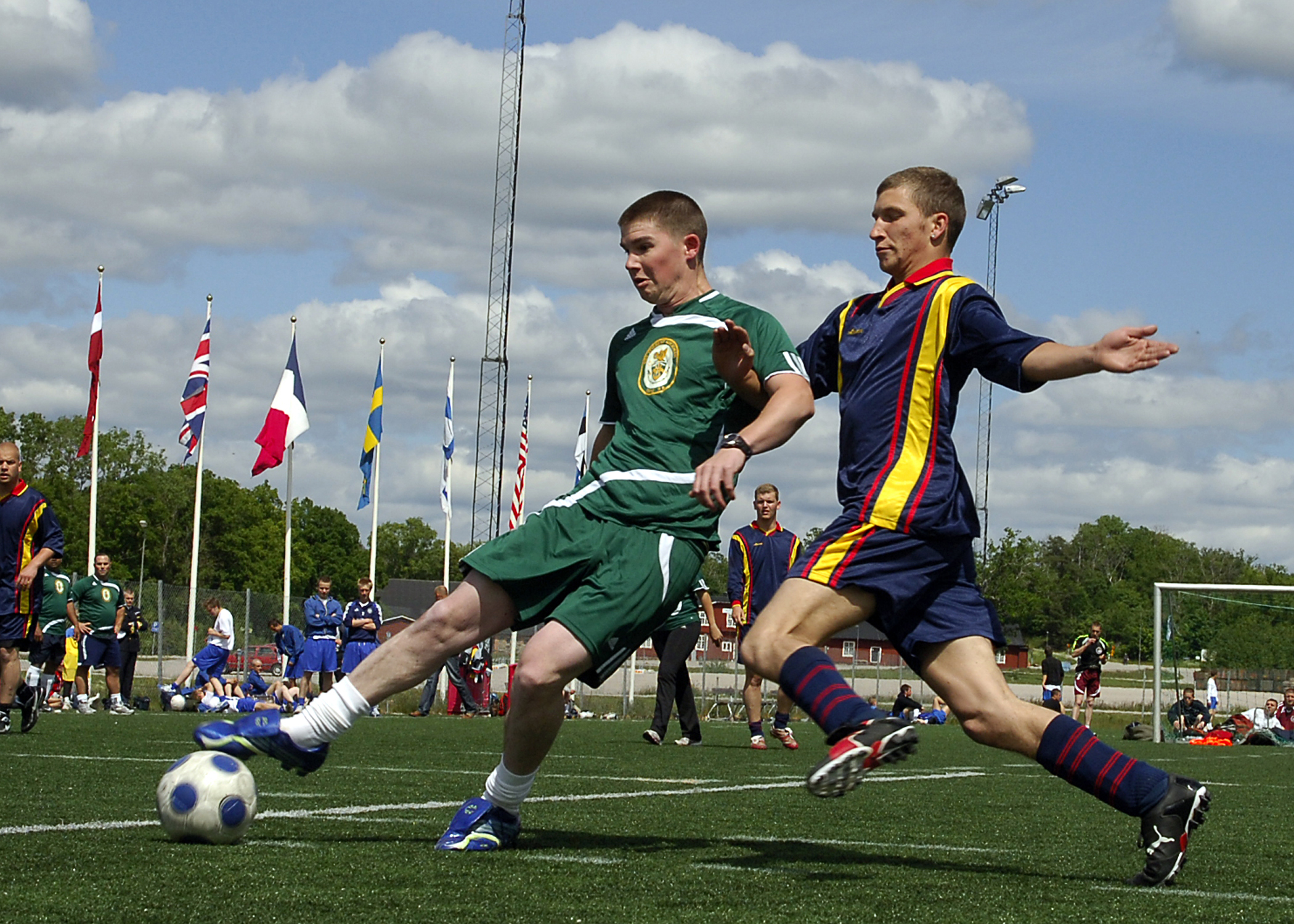 KARLSKRONA, Sweden (June 6, 2009) Fire Controlman 2nd Class Christopher Sabens, stationed on USS Forrest Sherman (DDG 98), shoots a goal while participating in the competitive soccer tournament hosted by Baltic Operations (BALTOPS) 2009 exercise. This is the 37th iteration of BALTOPS and is intended to improve interoperability with partner nations by conducting realistic training at sea with the 12 participating nations. U.S. Navy photo by Mass Communication Specialist 3rd Class Christian Martinez